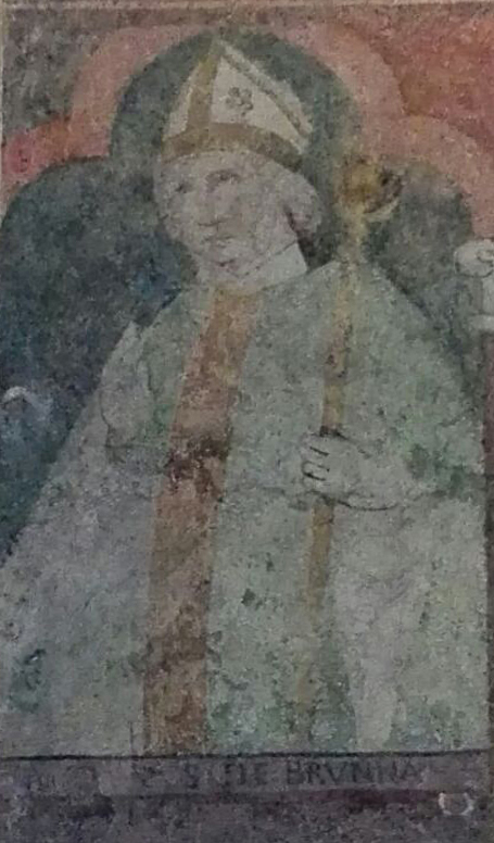 Nicholas of Brno in a fresco in the "Bishops Room" in the Castle of Buonconsiglio (Trento, Italy)